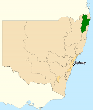 This image incorporates data that is: © Commonwealth of Australia (Australian Electoral Commission) 2009 Division of Page 2010